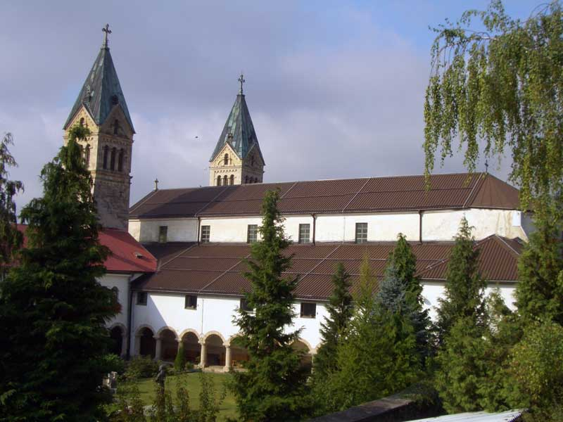 Franciscan monastery in Guča Gora